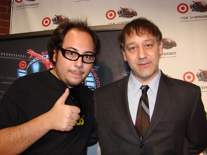 Nicolás López and Sam Raimi at Los Angeles film festival.